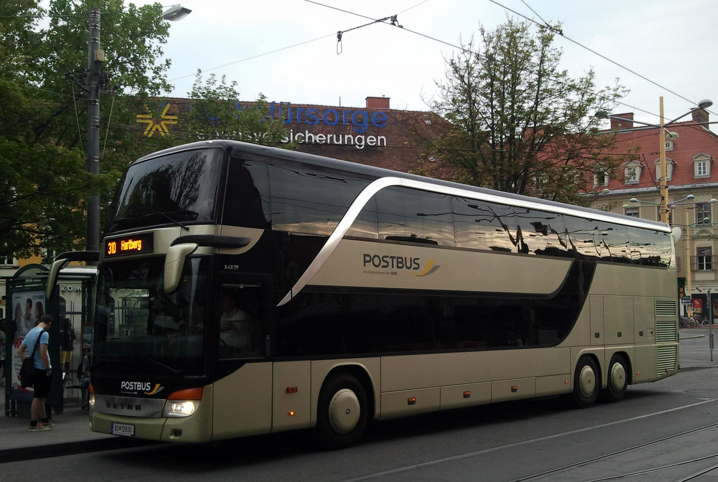 Doubledecker bus Setra S431DT of ÖBB-Postbus on line 310 to Hartberg at Graz Jakominiplatz, 2013-06-15.